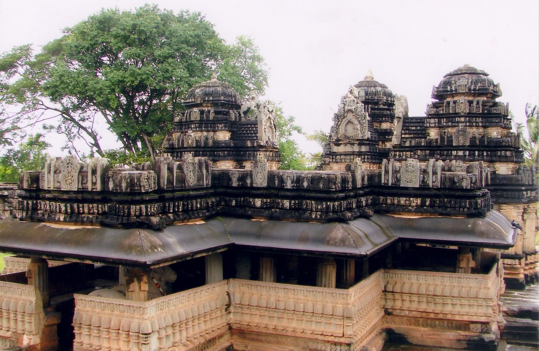 Photograph taken by self (Dinesh Kannambadi) at Kedaresvara temple (also spelt Kedareshwara or Kedareswara) in Balligavi, Shimoga district, Karnataka state, India in July 2006